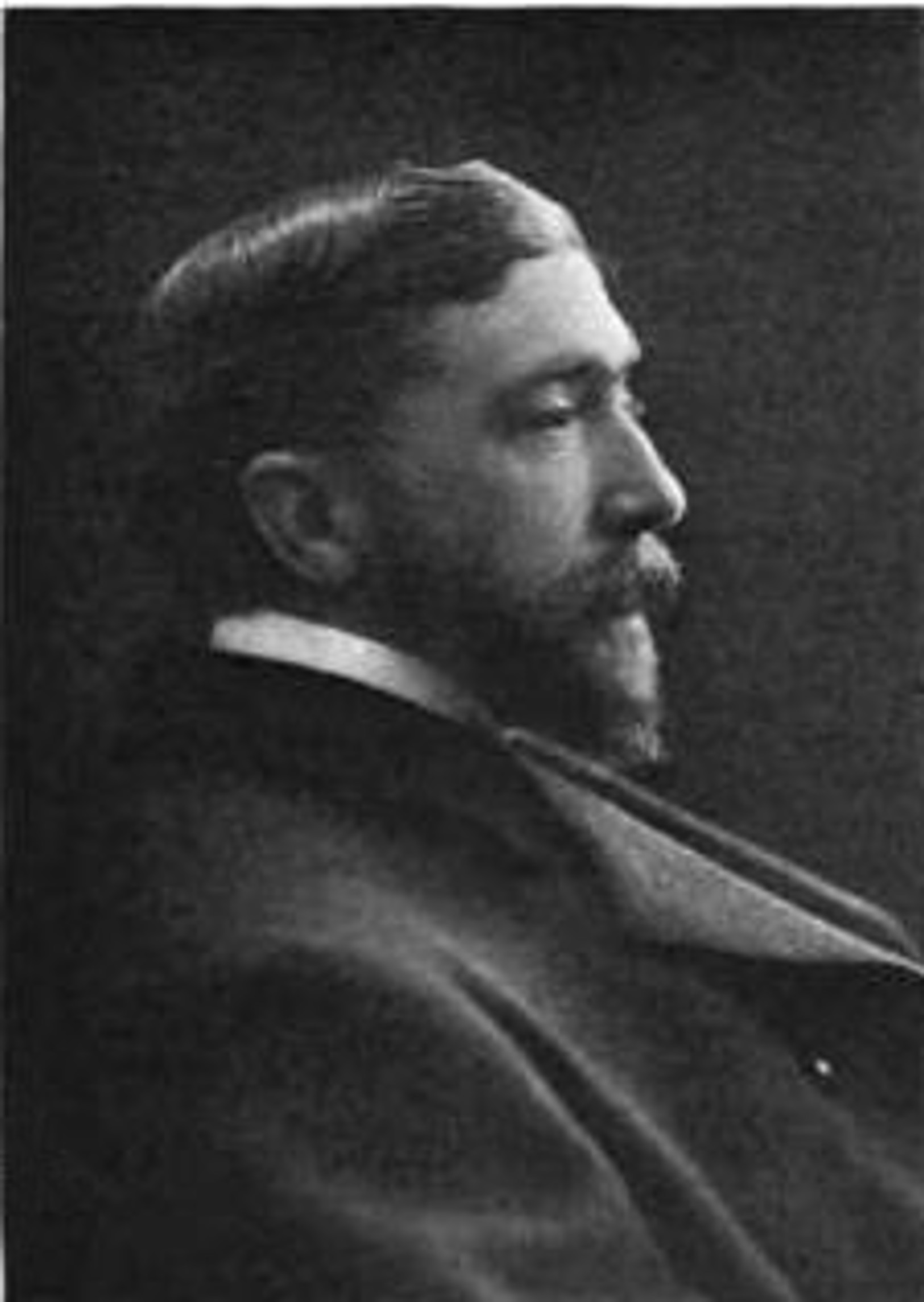 Charles Albert Edward Harriss (16 or 17 December 1862 – 31 July 1929) was an English then Canadian composer, impresario, educator, organist-choirmaster and conductor.